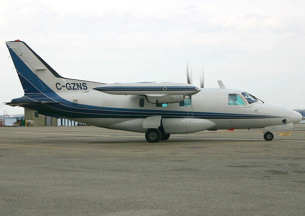 A Mitsubishi MU-2B belonging to Canadian operator Thunder Airlines.